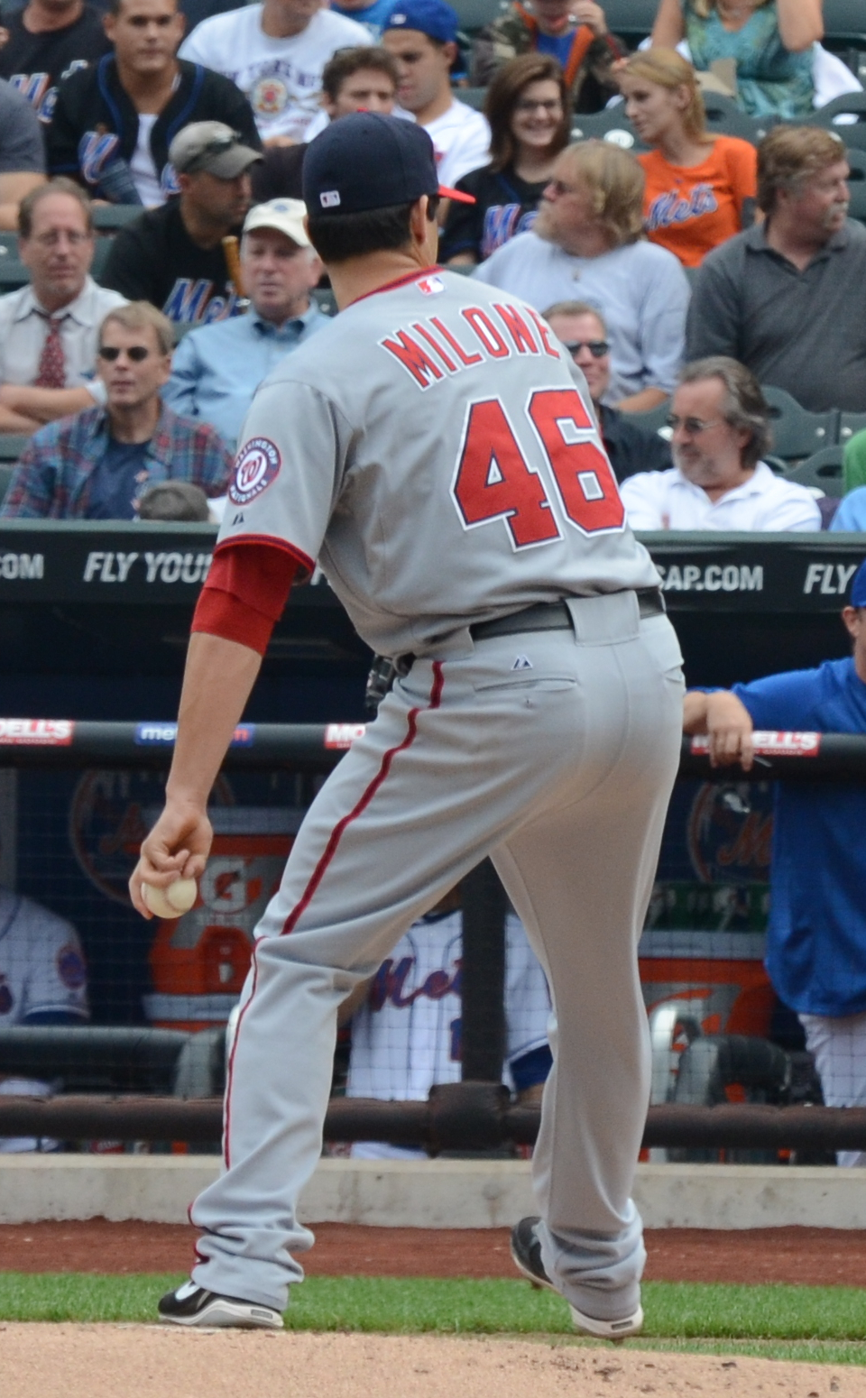 Tom Milone